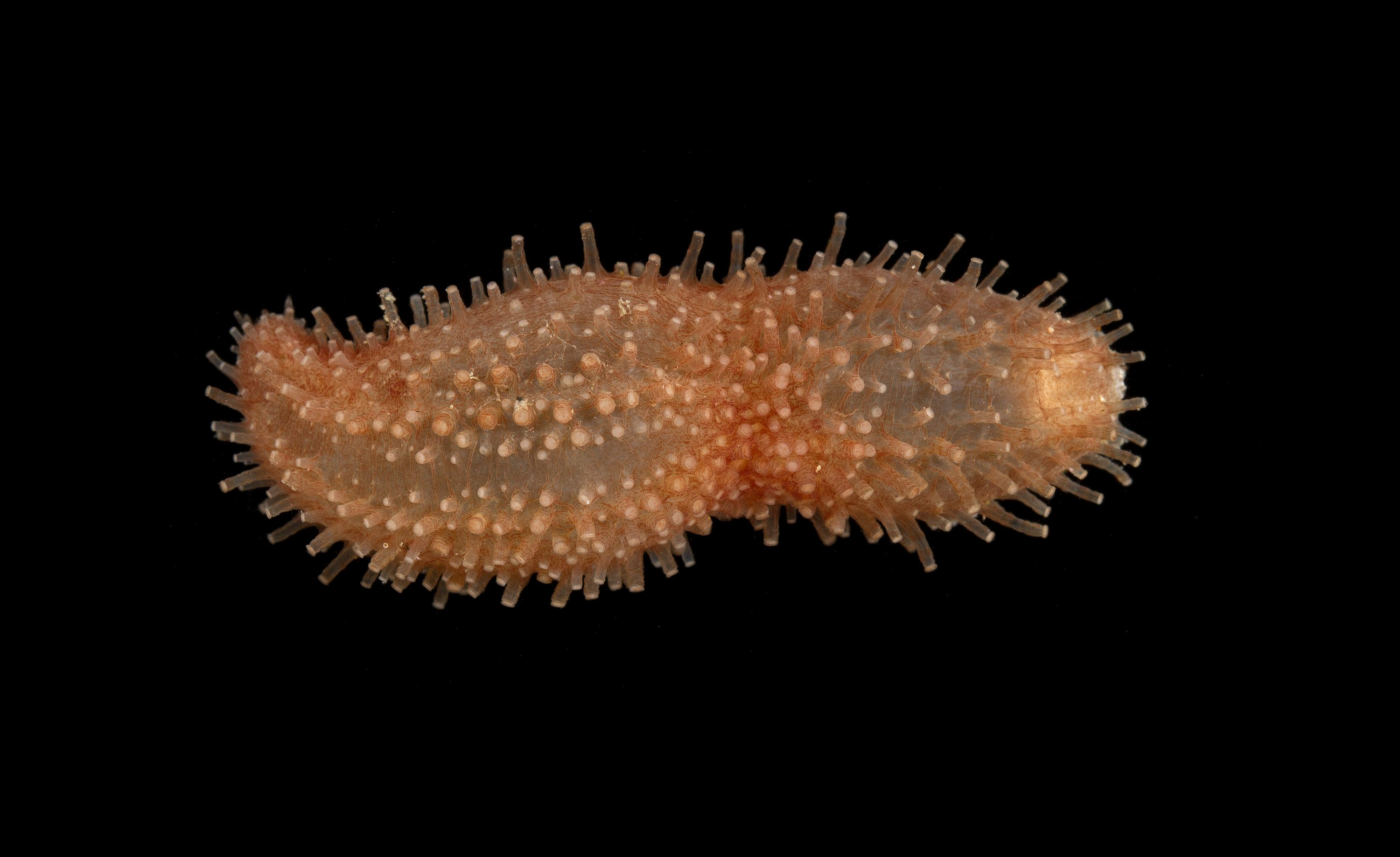 Lipotrapeza vestiens, sea cucumber. Spirit specimen. Registration no. F 183579. Photographer: David Paul Source: Museums Victoria